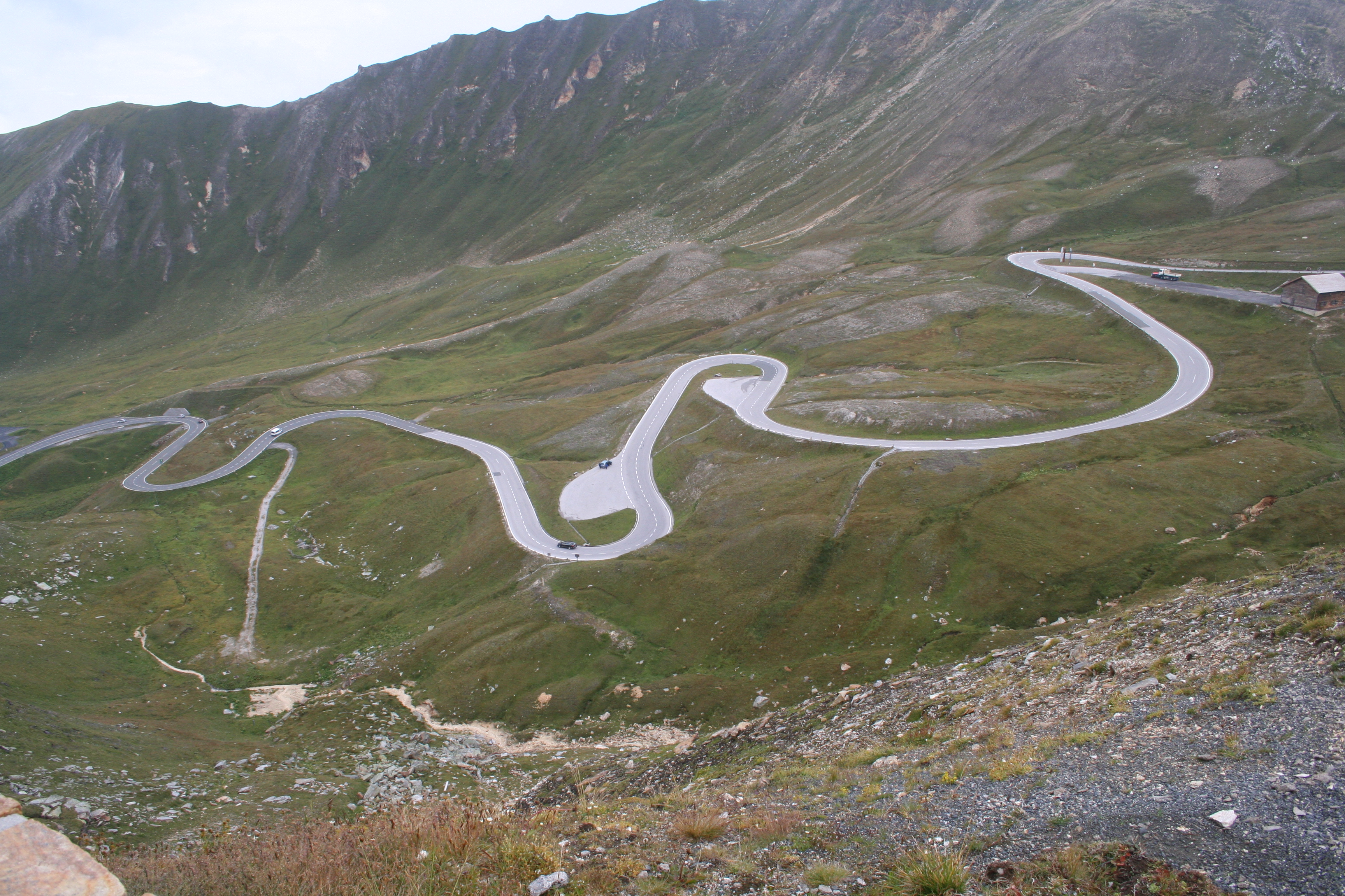 Grossglockner High Alpine Road